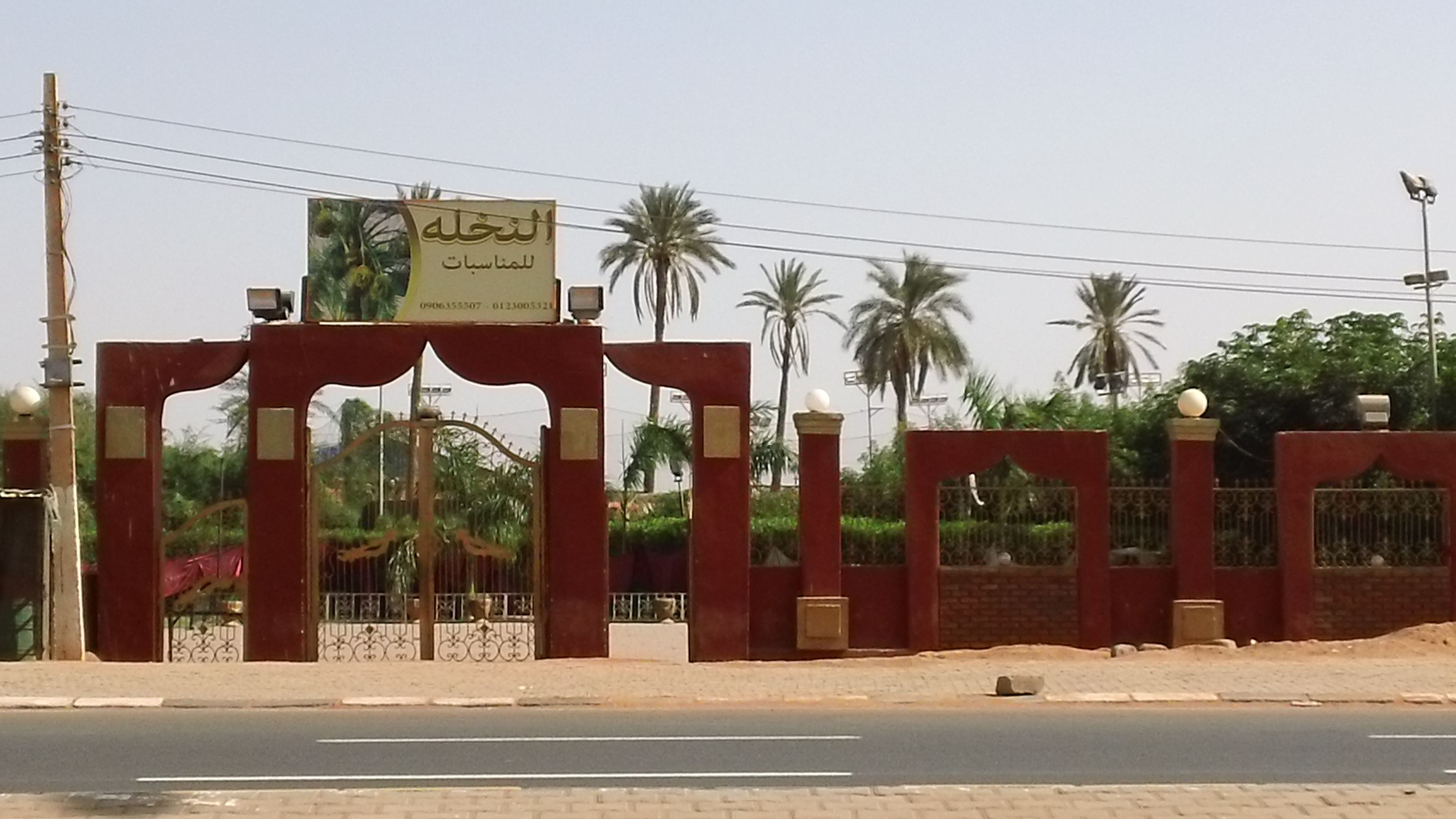 Alnakhla Park - Omudrman - Sudan